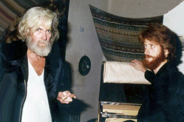 John Drew Barrymore with his son John Blyth Barrymore (owner) circa 1982, West Hollywood, CA. Original Candid photo by Jim Frank, photo color corrected and destroyed portion of background restored in photoshop by John Blyth Barrymore. Photo was given to me by photographer to do with as I pleased. Jim took many professional photos of my father and I for which he still retains the rights, this photo is a candid shot and does not fall into that category. Jim's sister is an attorney in Palm Springs and can be reached for verification. Jim is currently convalescing but can also be reached for verification if necessary.